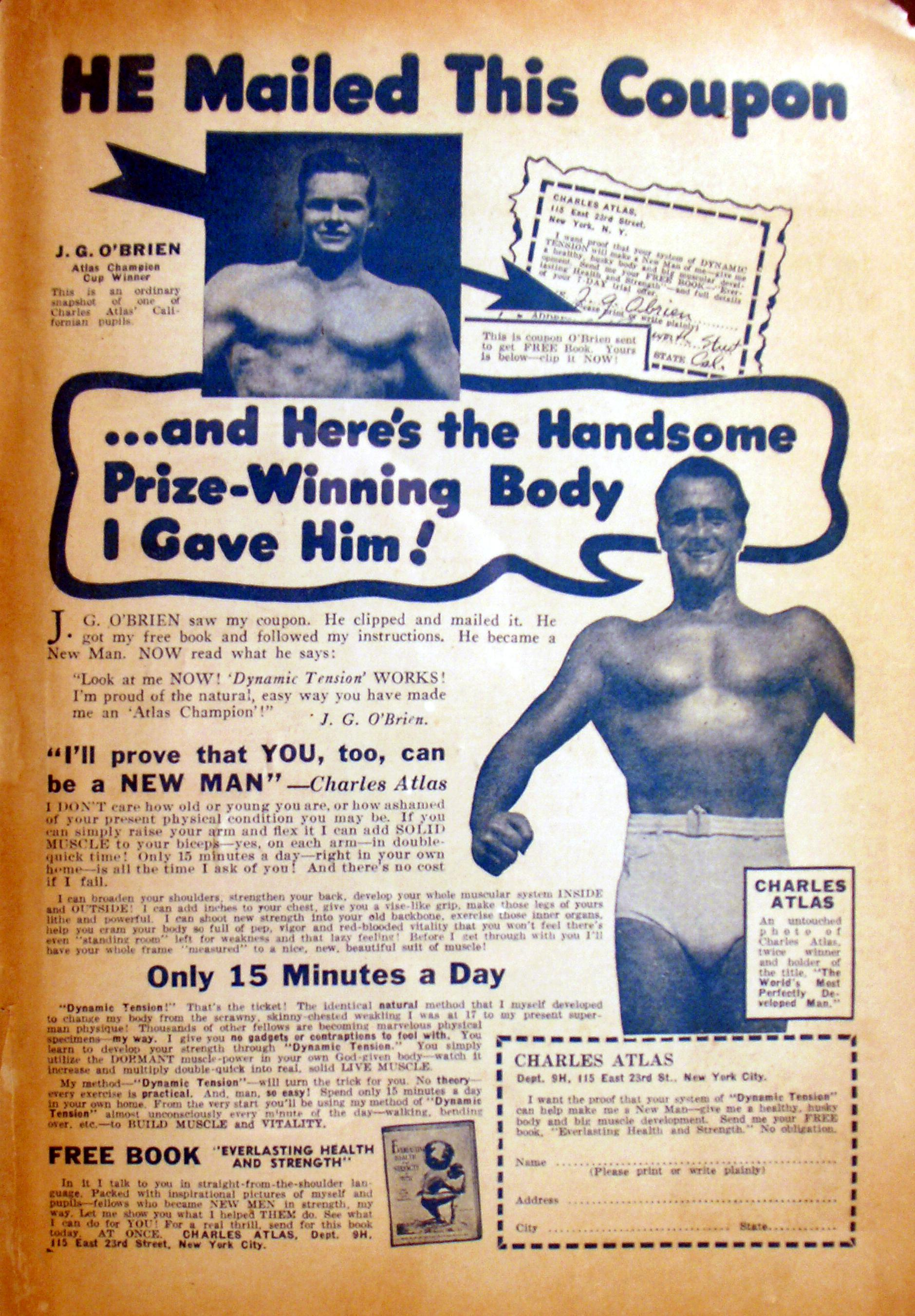 Advertisement for Charles Atlas' "Dynamic Tension" bodybuilding system. Advertisement from the pulp magazine Weird Tales (September 1941, vol. 36, no. 1).